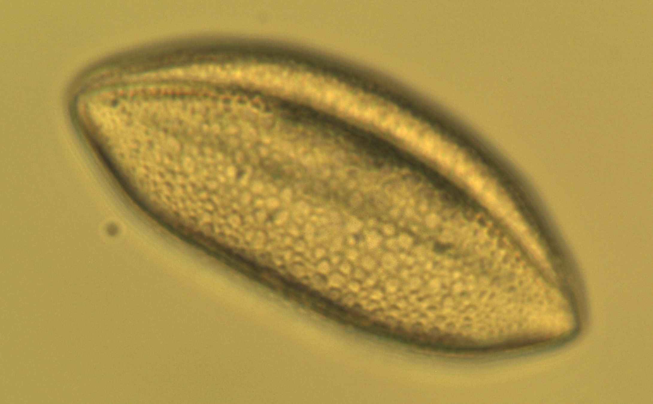 Scilla Pollenkorn 400x in Glycerin